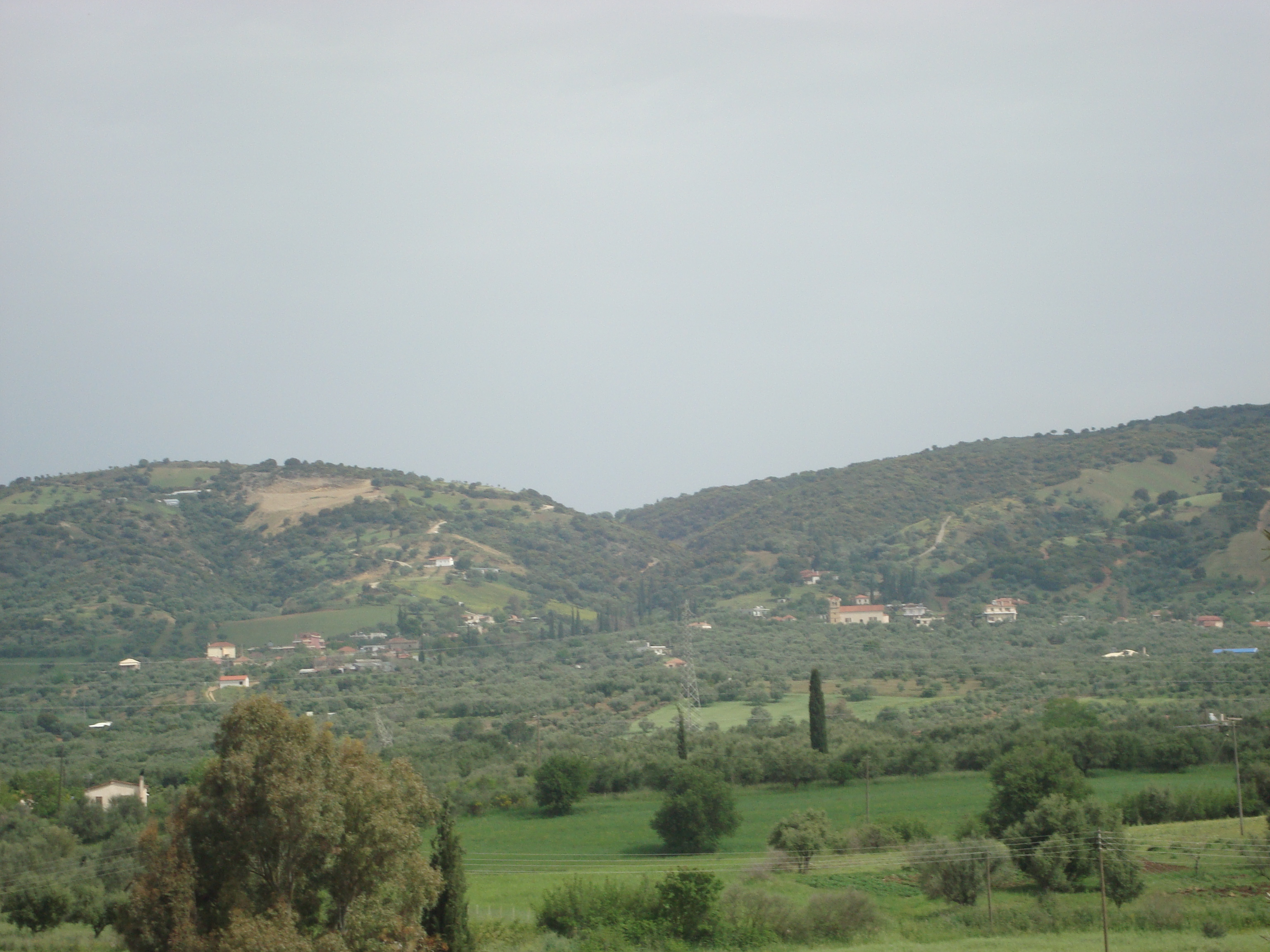 Agrilia village in Achaea